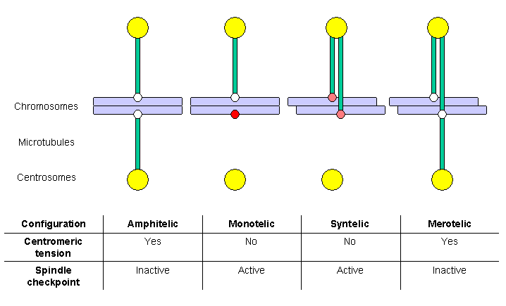 Scheme of the different configurations of chromosome attachment to the mitotic spindle. More information in Maiato et al. 2004 Journal of Cell Science 117, 5461-5477